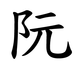 Character for Nguyễn last name. (Equivalent to Ruan/Juan (Mandarin) or Yuen/Yuan (Cantonese)).